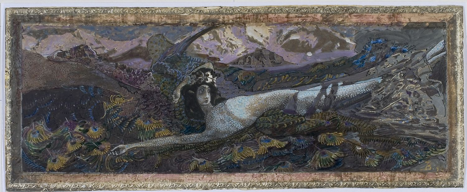 Study of russian artist Mikhail Vrubel for Fallen Demon